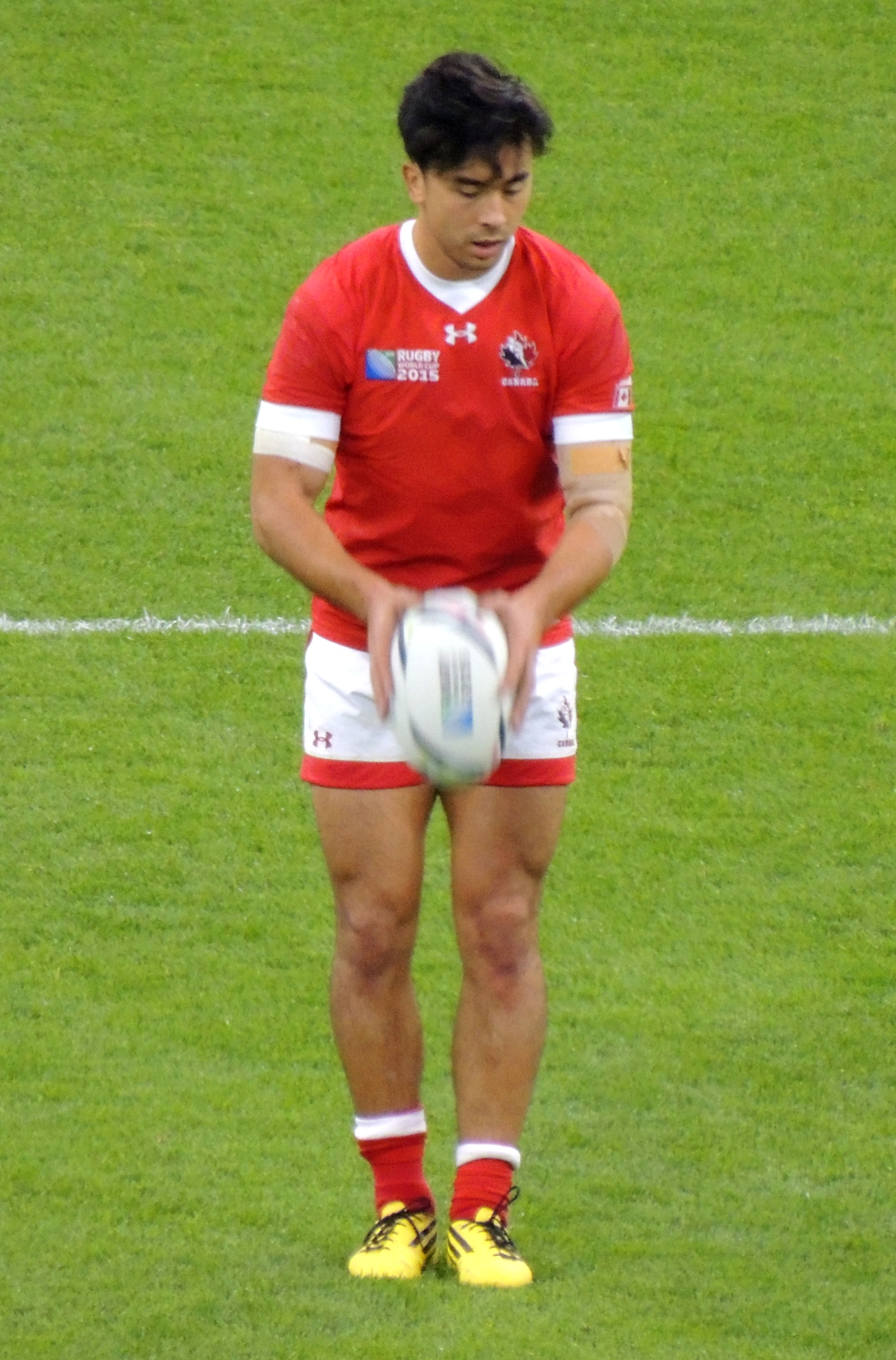 Canadian rugby union player Nathan Hirayama playing in 2015 Rugby World Cup game Ireland vs Canada at Millennium Stadium in Cardiff.